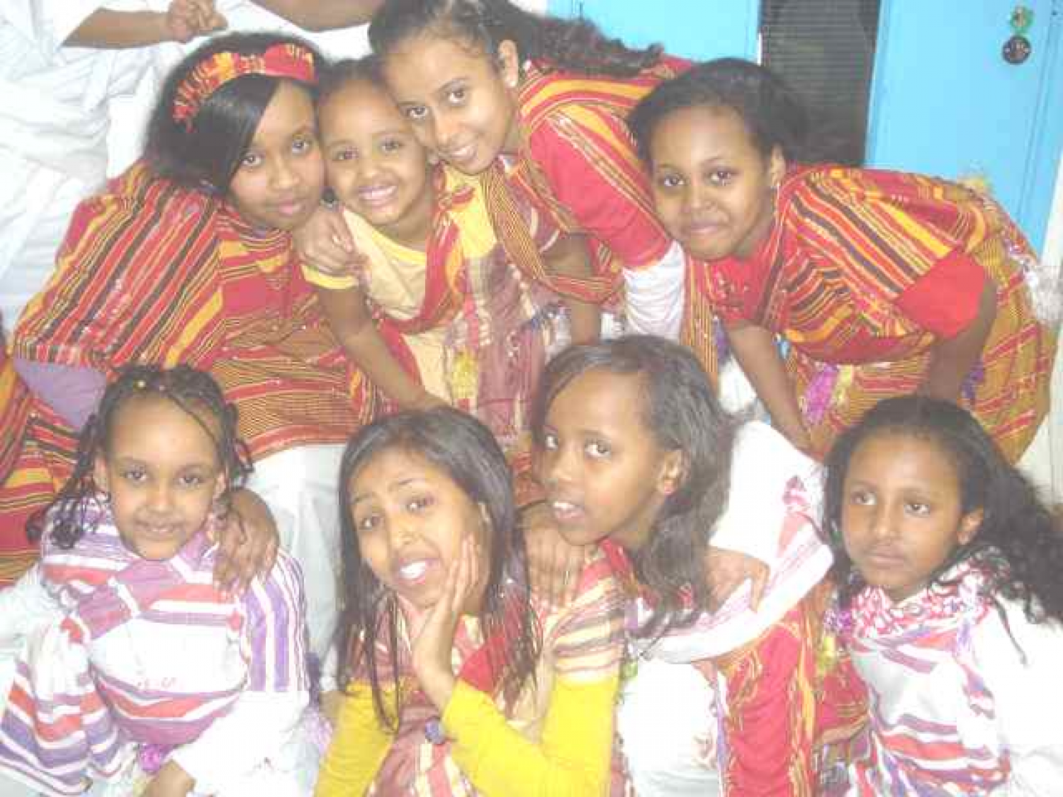 Somalis